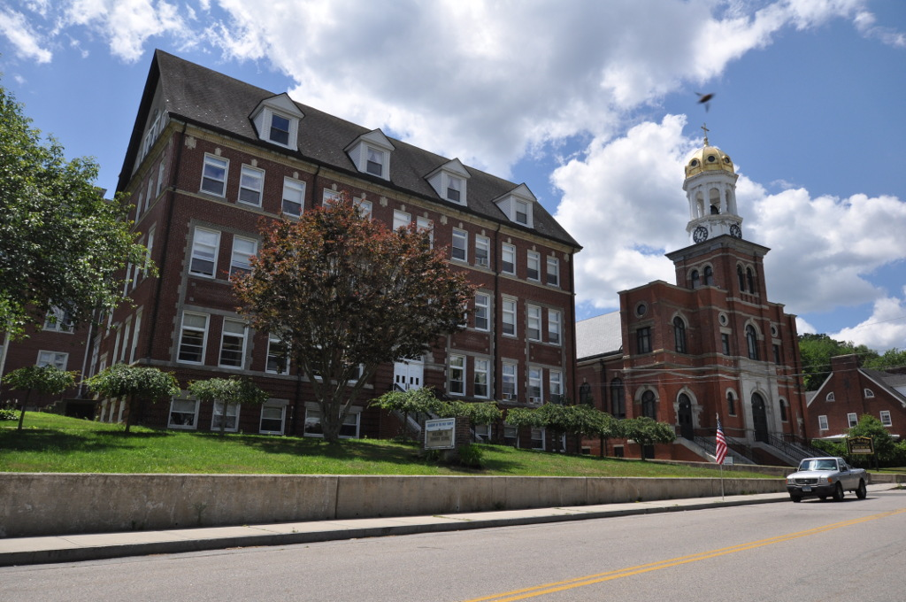 St. Mary Roman Catholic Church complex, Baltic, Connecticut